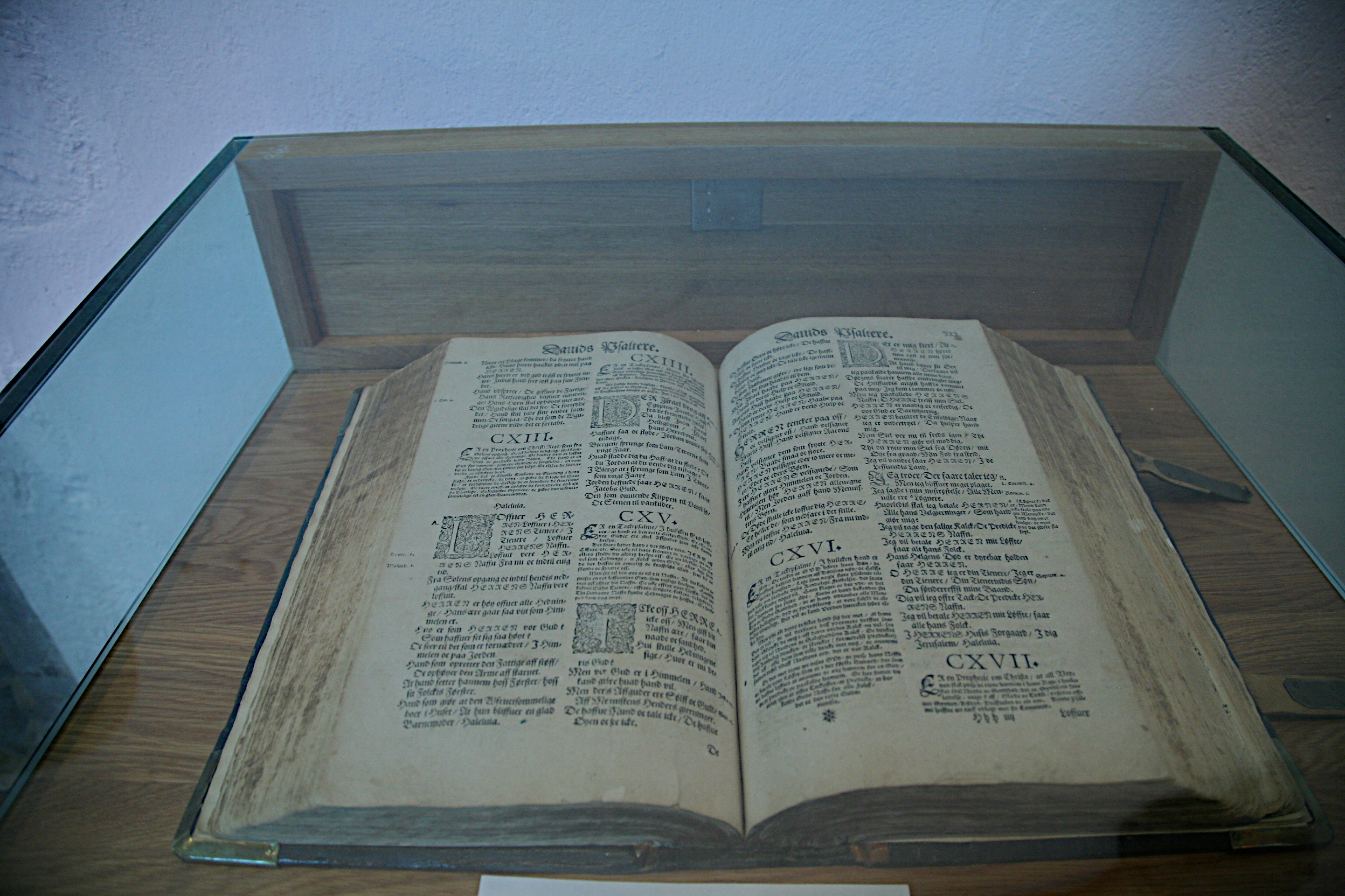 Andrew Smith's bible Printet Copenhagen 1589 in Stavanger cathedral